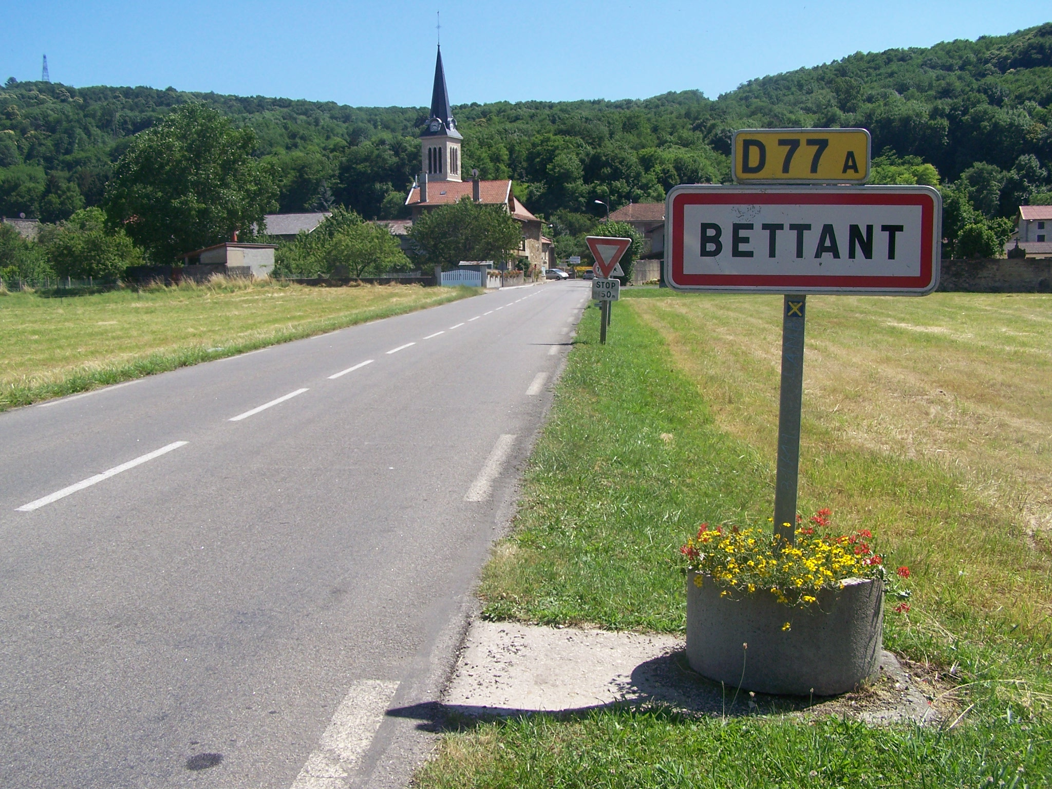 Sign welcoming visitors to the little French village of Bettant, close to Ambérieu in Ain.